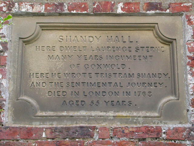 A plaque commemorating Laurence Sterne's occupation of Shandy Hall. The text reads: 'SHANDY HALL HERE DWELT LAURENCE STERNE MANY YEARS INCUMBENT OF COXWOLD. HERE HE WROTE TRISTRAM SHANDY. AND THE SENTIMENTAL JOURNEY. DIED IN LONDON IN 1768 AGED 55 YEARS.'